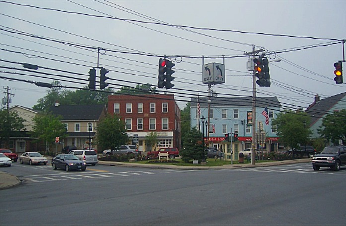 Photographed June 11, 2005 by Daniel Case. Intersection of NY 94 and NY 208 at center of Washingtonville, New York.